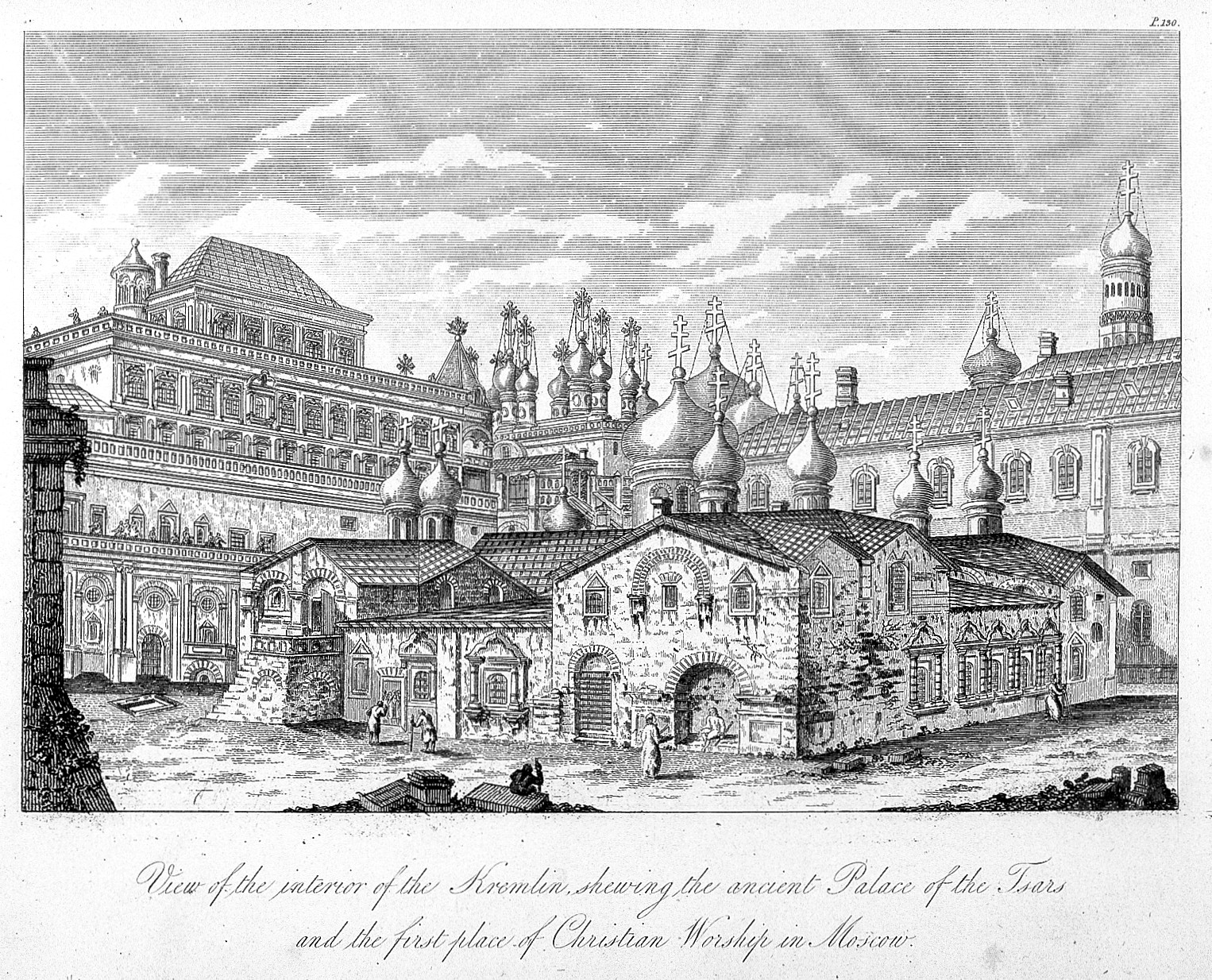 "View of the interior of the Kremlin showing the ancient Palace of the Tsars and the first place of Christian Worship in Moscow". (Center: the demolished church of the Saviour Na Boru, left: extant Terem Palace, right: The Palace of Facets) Rare Books Keywords: Travels; Travel